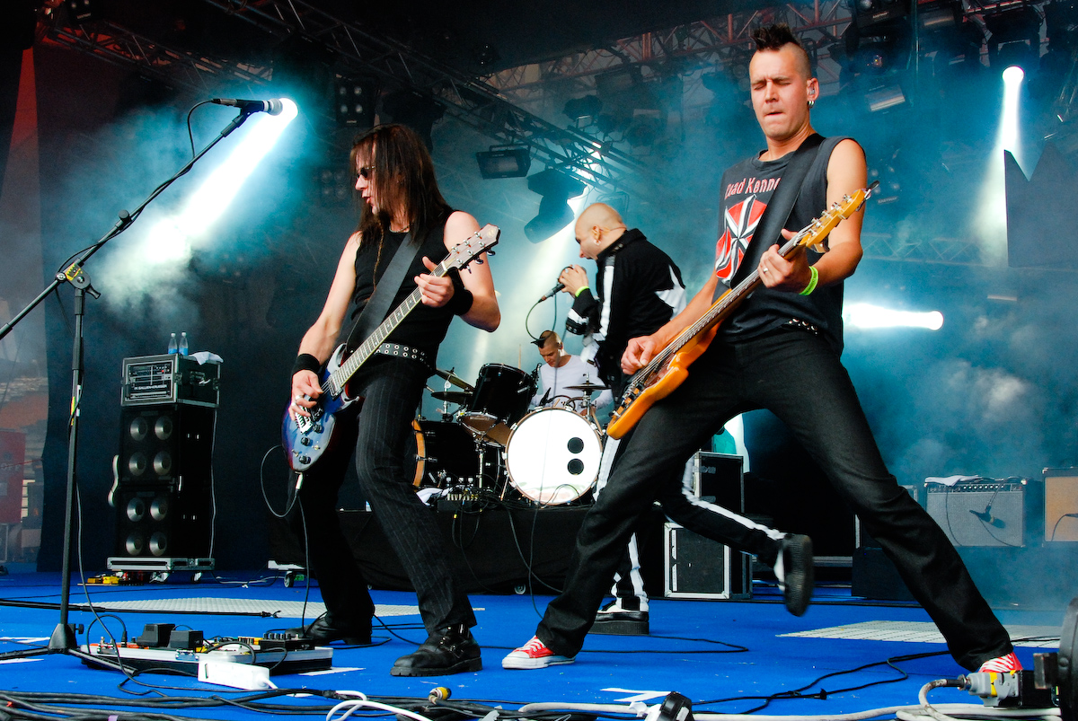 Maj Karma performing at the Ilosaarirock 2007 festival.